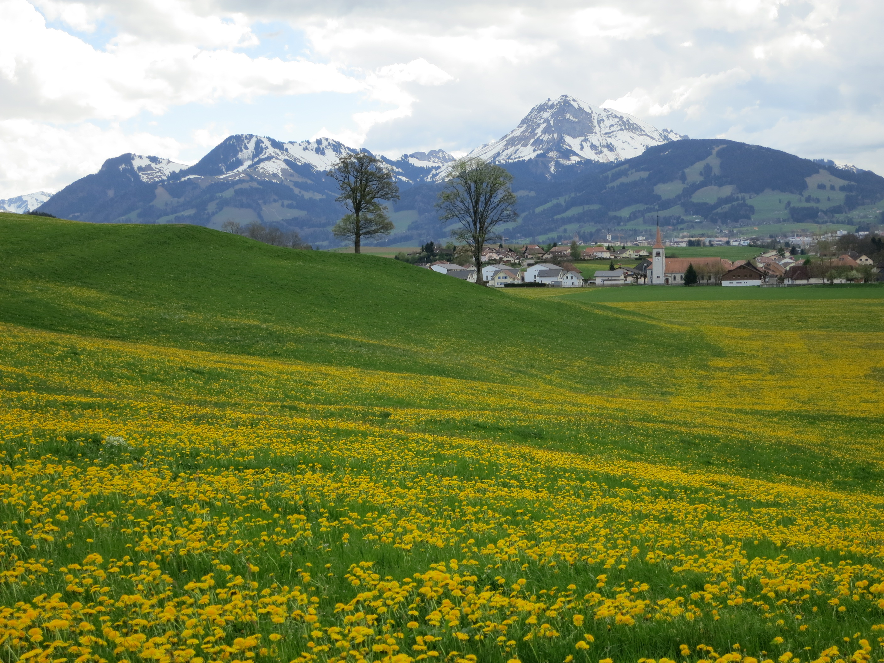 View on Echarlens and mount Moleson, FR